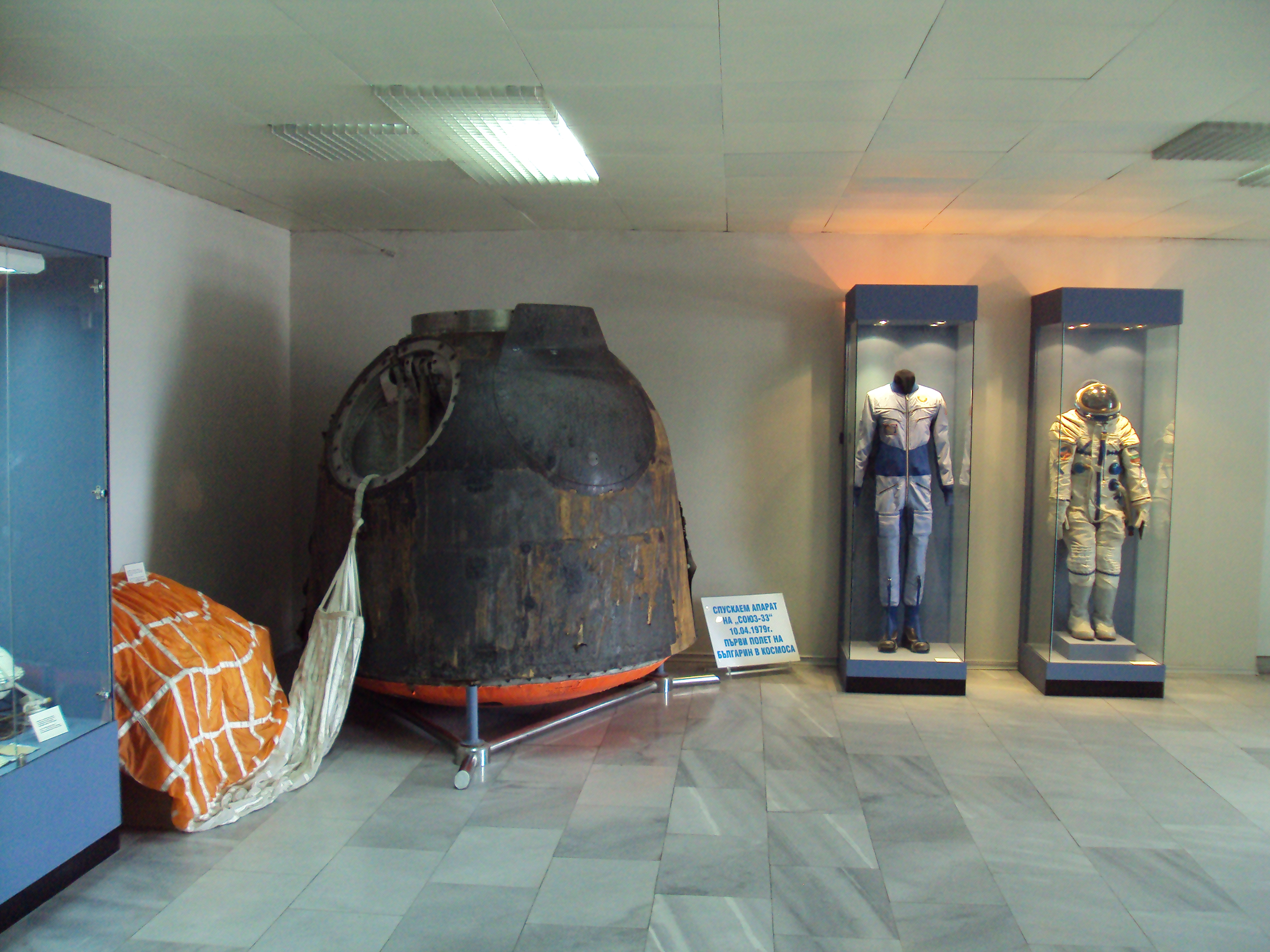 Aviation Museum in Plovdiv